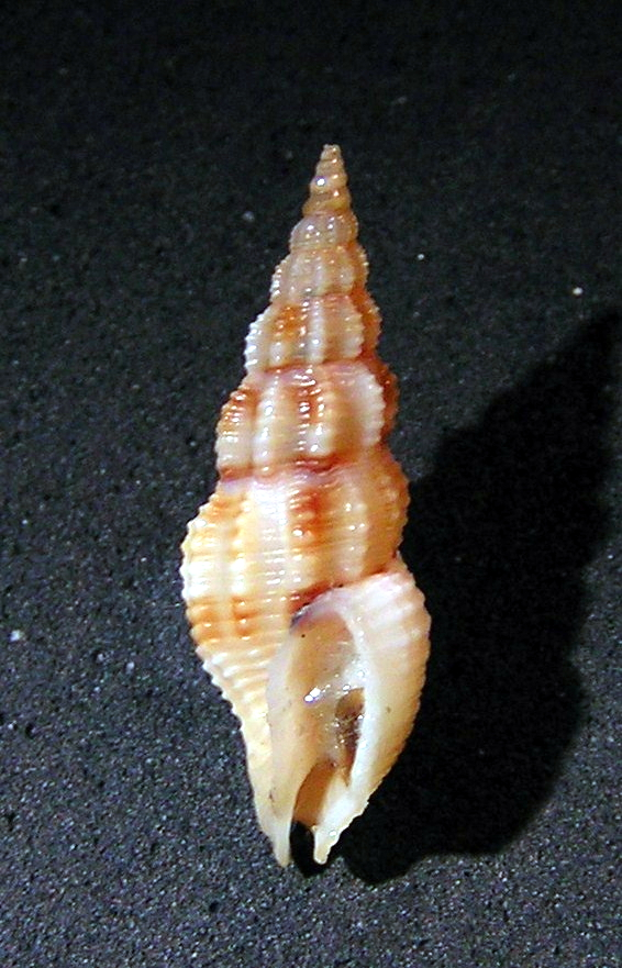 Metaphos dejanira (Dall, 1919); family Buccinidae; Pacific Panama